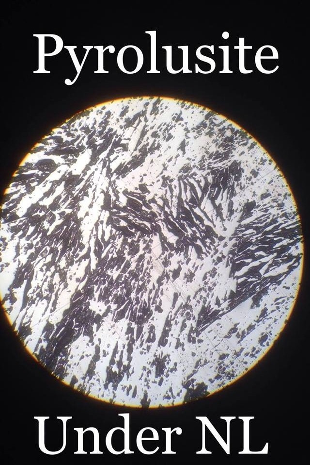 Microscopic image of Pyrolusite under normal light